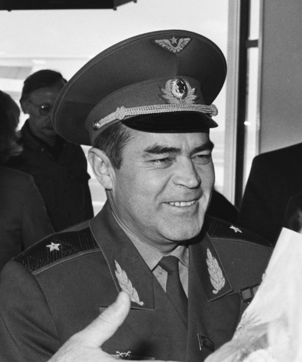 Andriyan Nikolayev